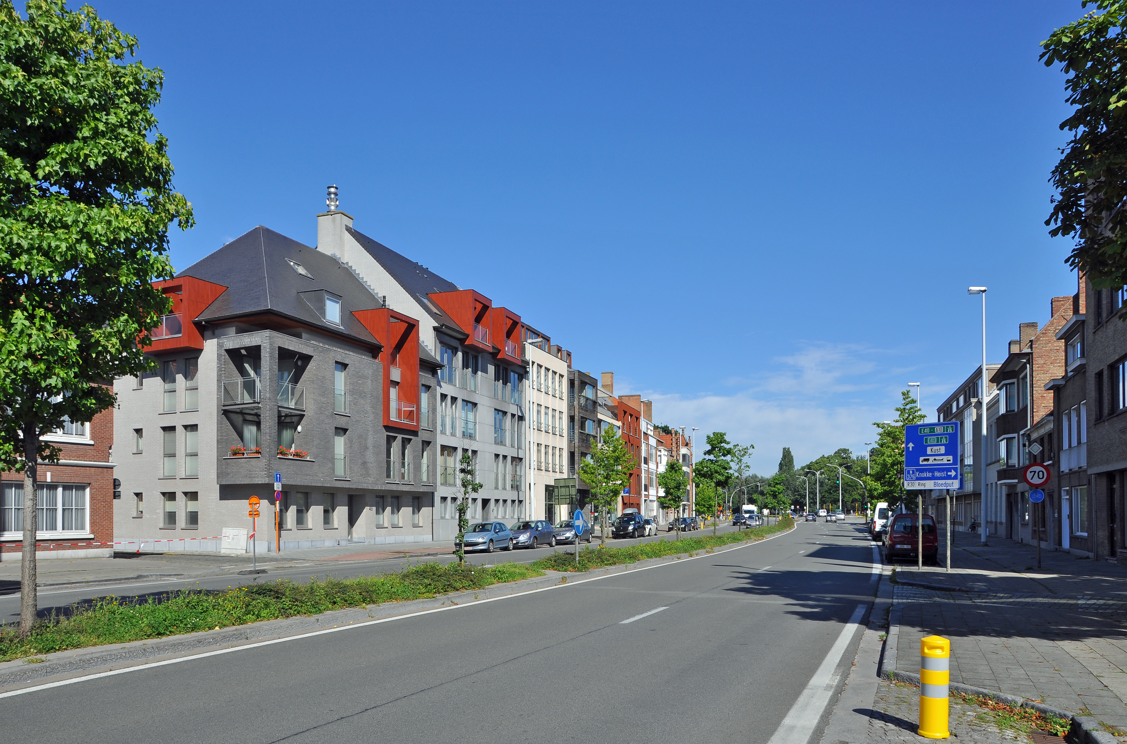 Bruges (Belgium): Hoefijzerlaan